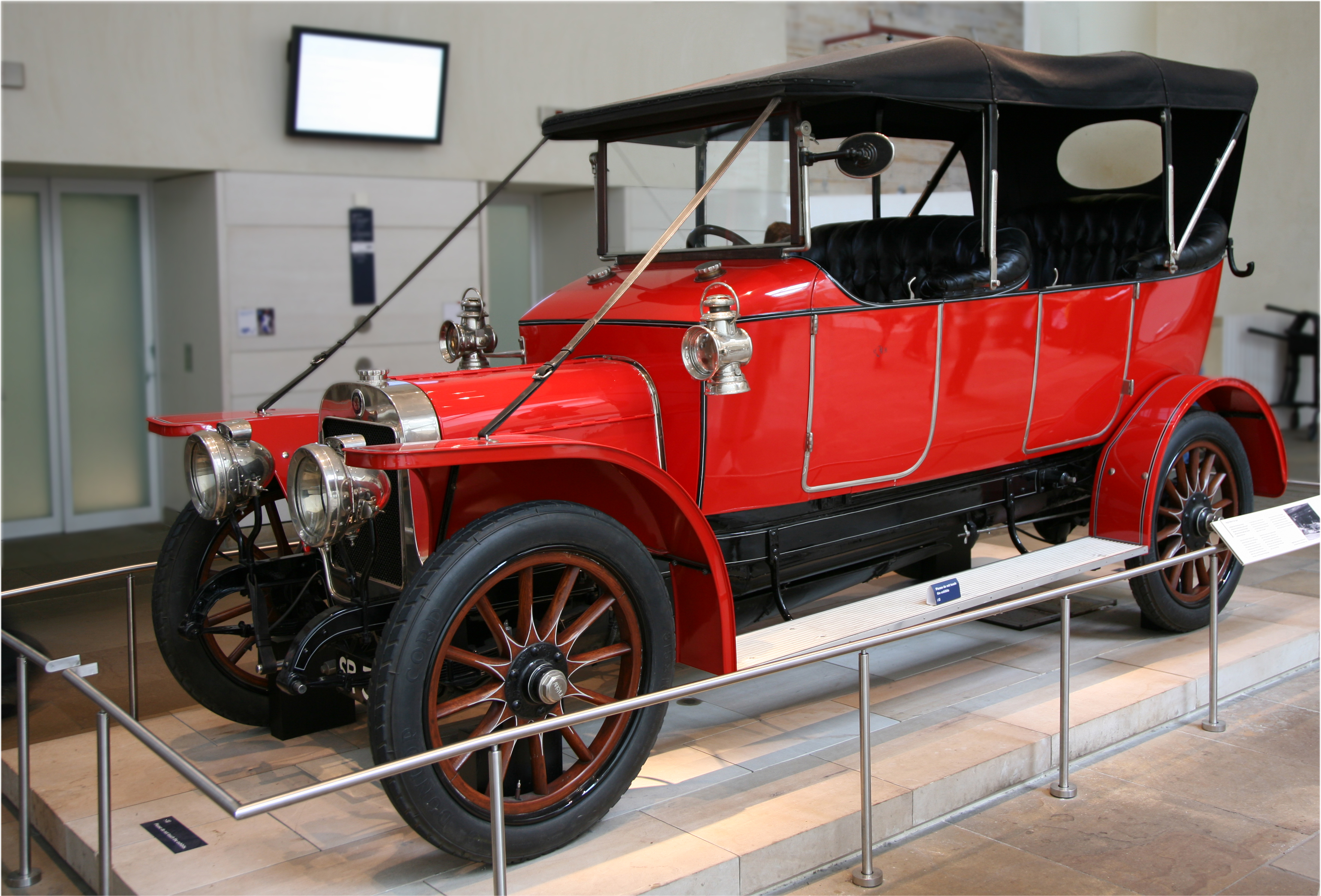 Argyll (automobile), Flying Fifteen model (1910), National Museum of Scotland, Edinburgh